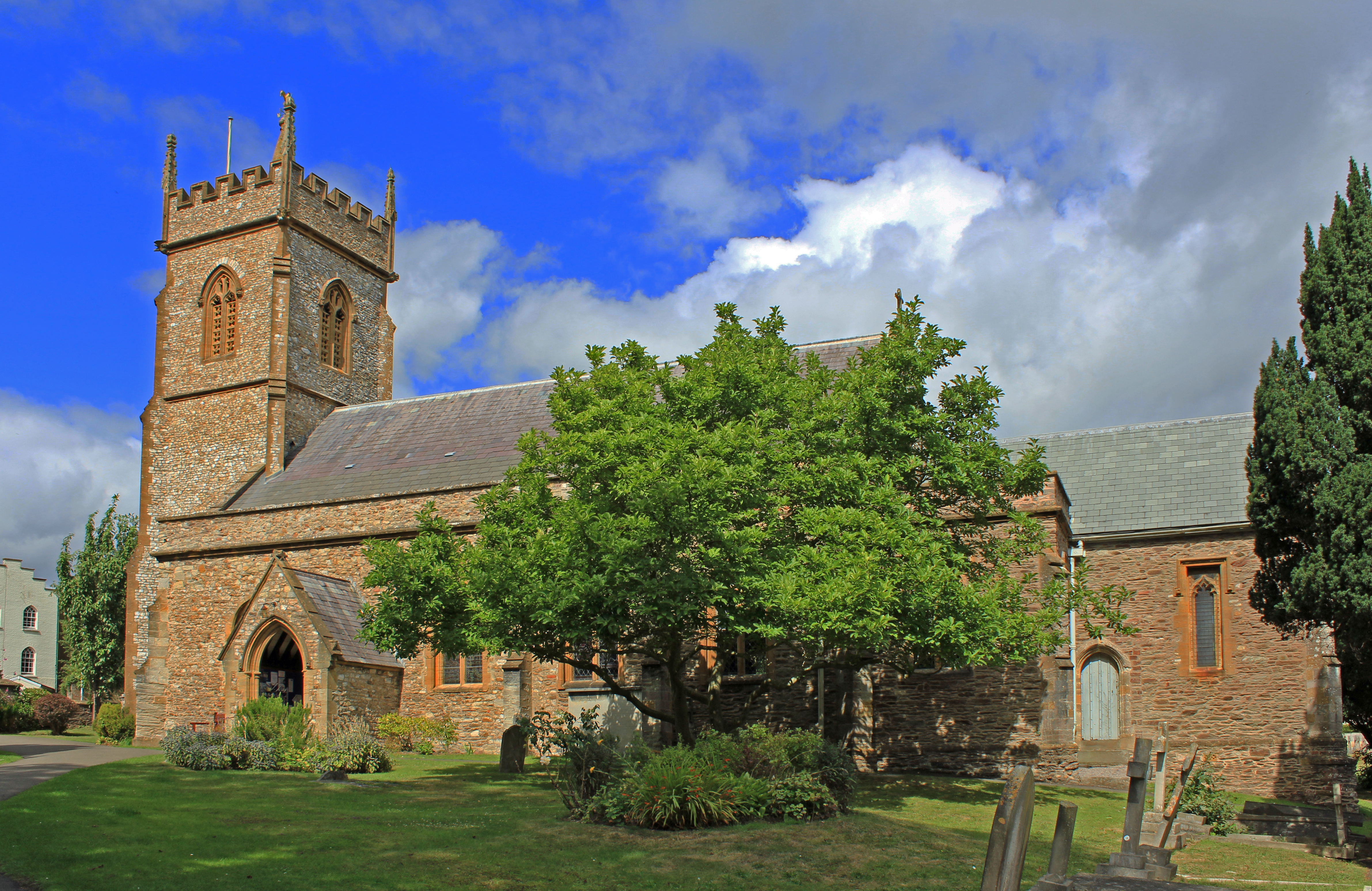 St George's parish church, Fons George, Wilton, Taunton, Somerset, seen from the southeast